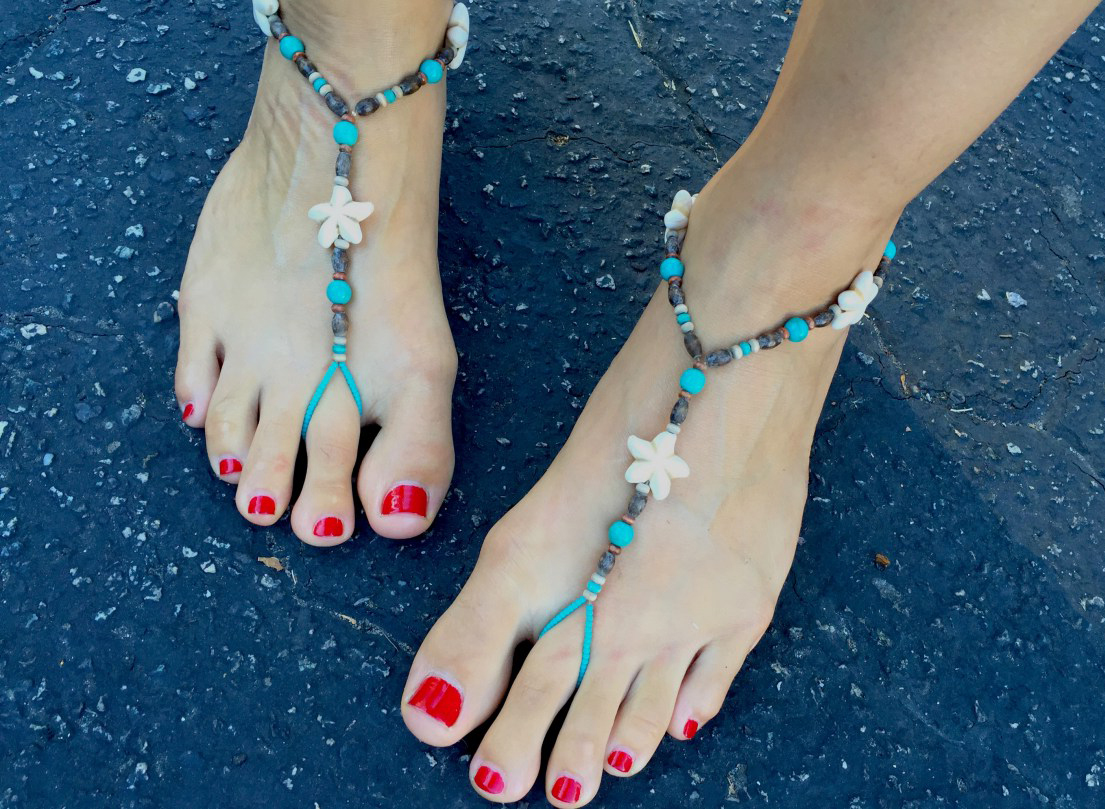 Woman wearing starfish barefoot sandals aka foot jewelry.